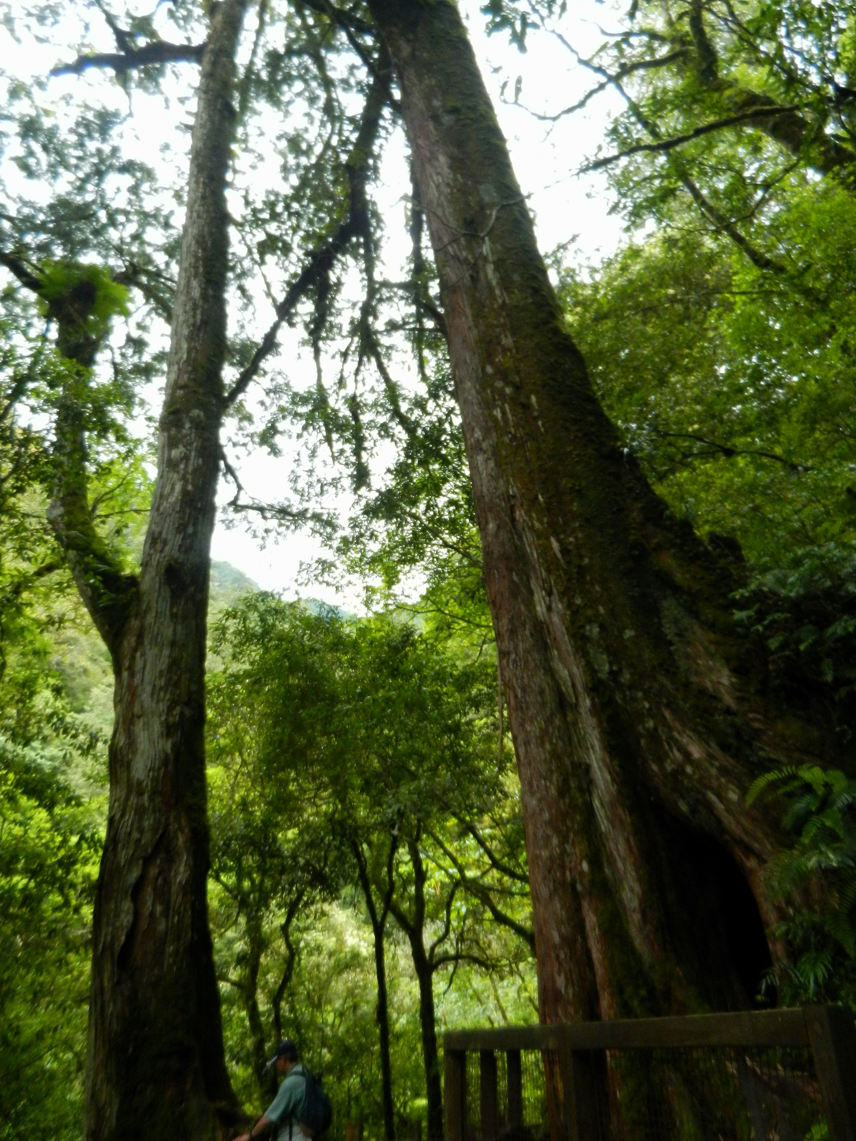 拉拉山森林保育區 Lalasha Forest Reserve